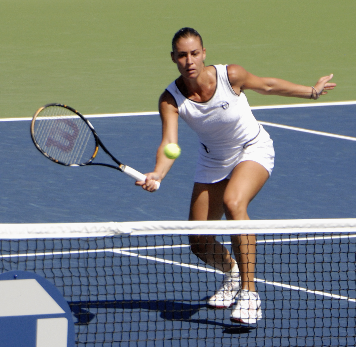 Flavia Pennetta at the 2009 US Open